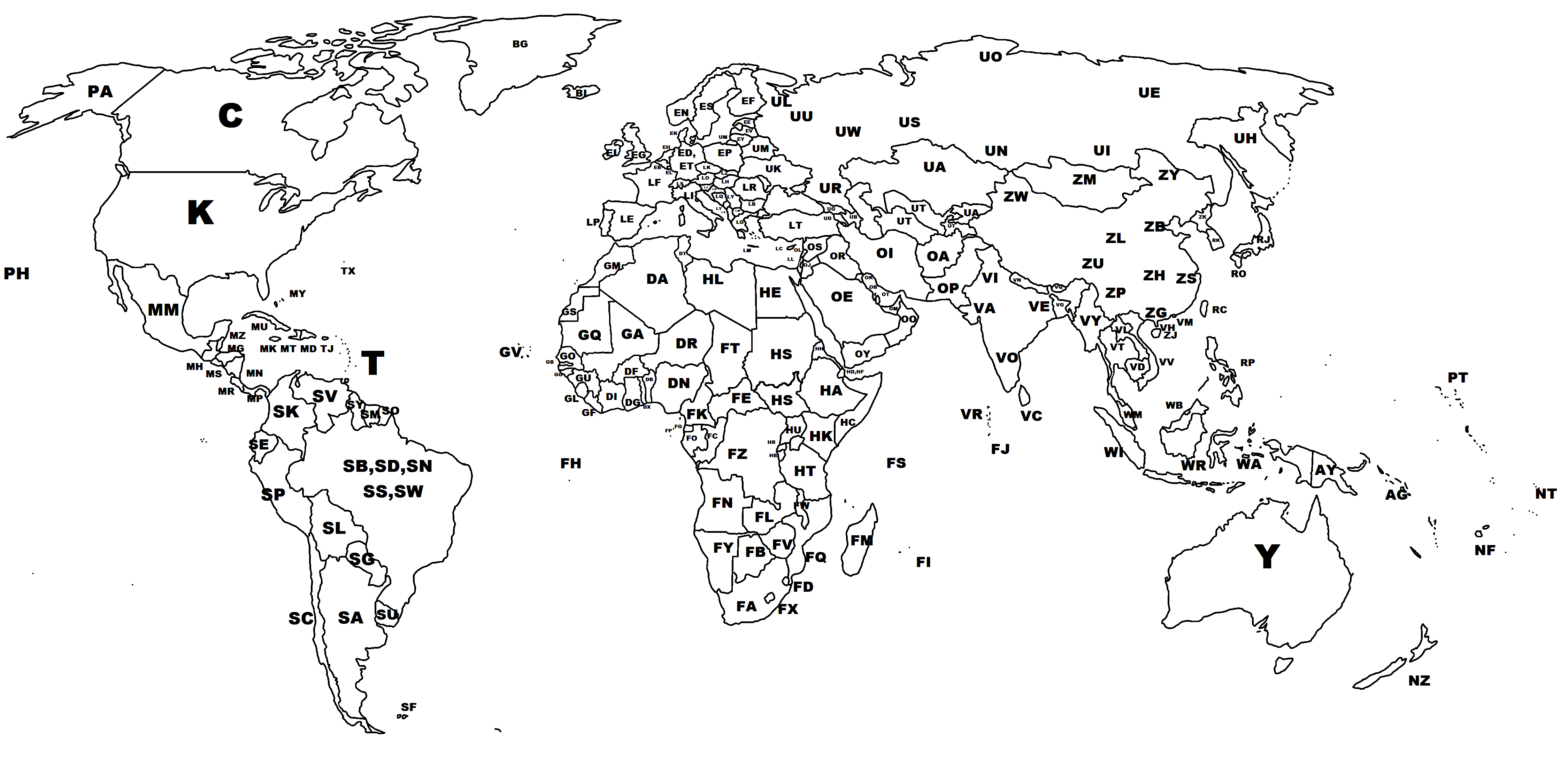 World map showing ICAO prefix for each country.